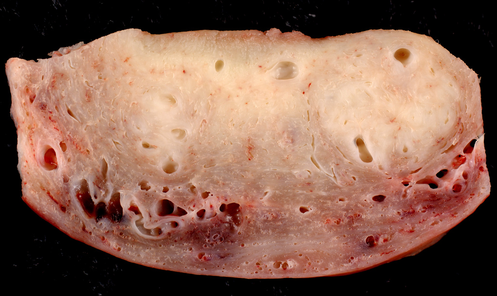 Adenomyosis, Hysterectomy Specimen Cross section through the wall of a hysterectomy specimen of a 30-year-old woman who reported chronic pelvic pain and abnormal uterine bleeding. The endometrial surface is at the top of the image, and the serosa is at the bottom. I think most cases of adenomyosis can be reliably diagnosed grossly by an experienced prosector examining a fixed specimen. Following formalin fixation, the soft adenomyotic areas stand out more strikingly against the firmer myometrium.